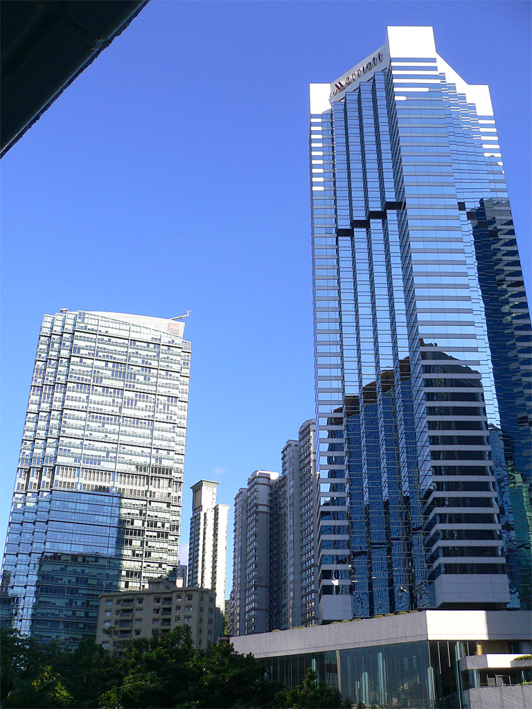 J.W. Marriott Hotel, Pacific Place, Admiralty, Hong Kong